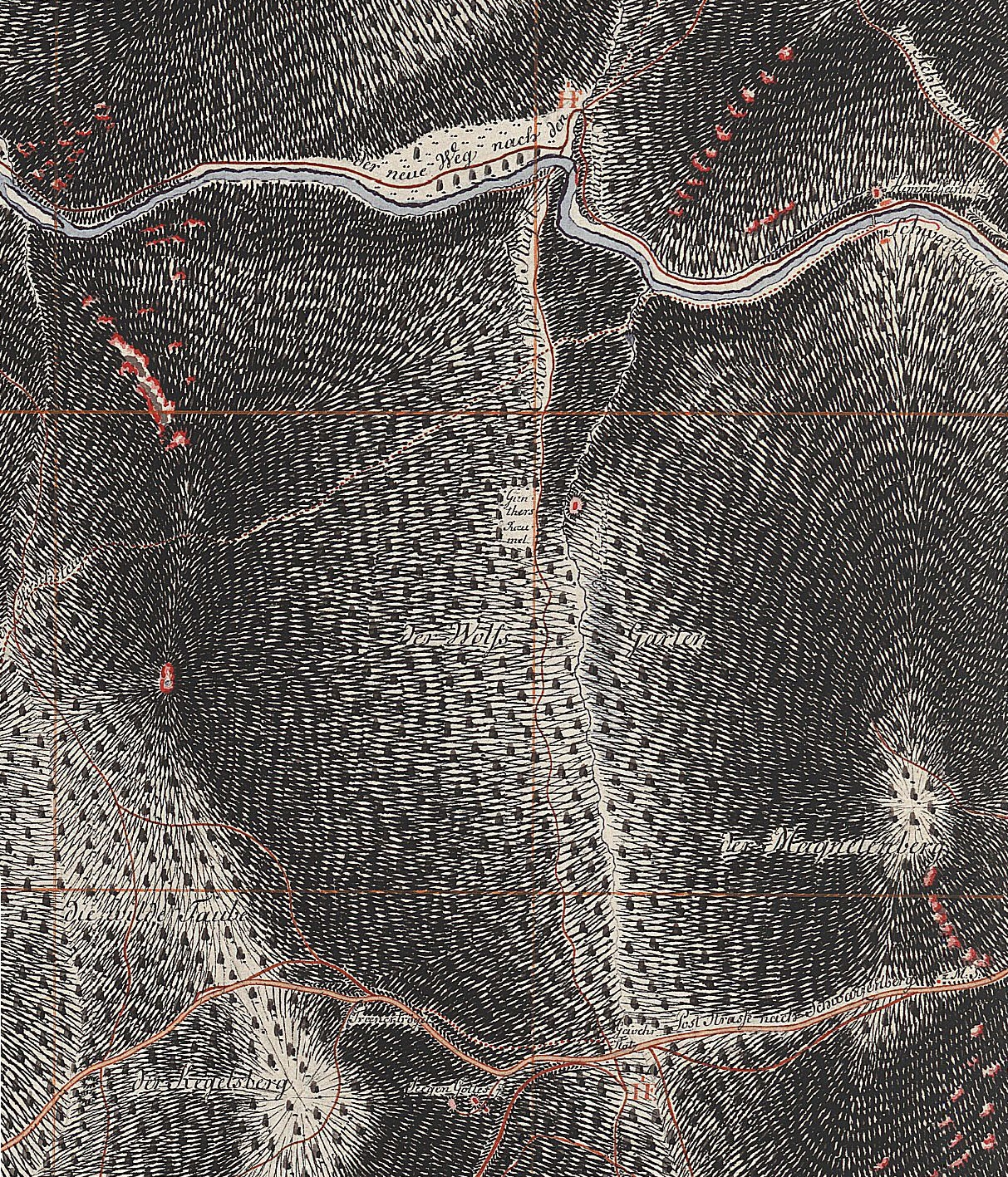 Wolfsgarten in a 1791 map